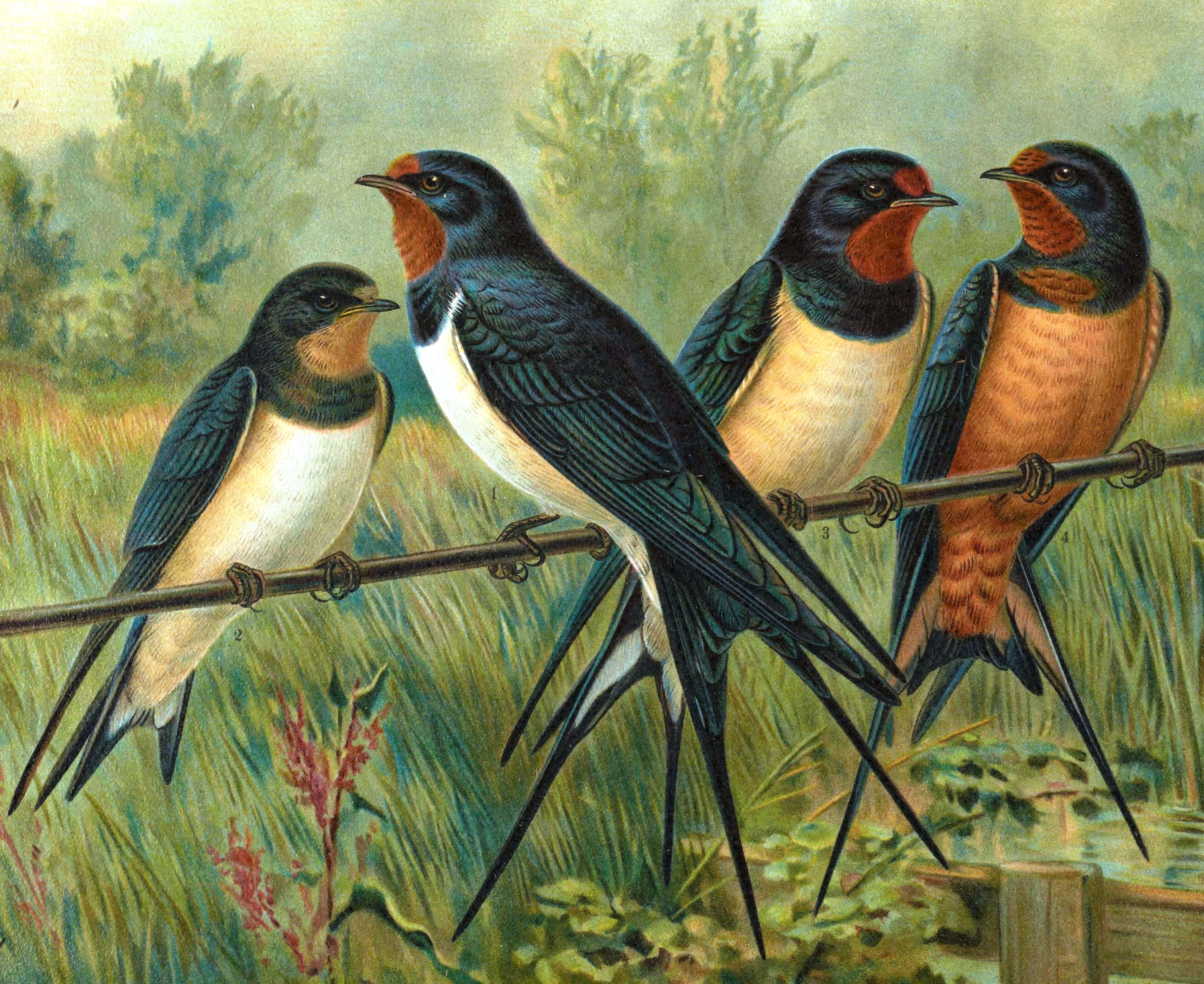 Hirundo rustica. Naumann